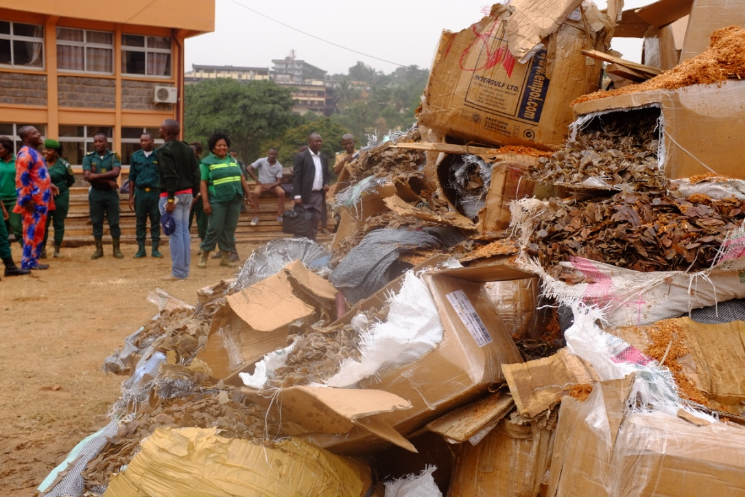 Approximately 3 metric tons of pangolin scales were burned in Yaounde, Cameroon on 2/17/2017. Album description: "On the eve of World Pangolin Day, the U.S. Fish and Wildlife Service commends the Government of Cameroon for its destruction today of approximately 3 metric tons of confiscated pangolin scales. Pangolins are believed to be the most heavily trafficked wild mammals in the world, with as many as 1 million pangolins being poached from the wild during the last decade. Today’s pangolin scale burn event, the first of its kind in Africa, will send a strong message that the poaching of pangolins and trafficking of their meat and scales will no longer be tolerated in Cameroon."